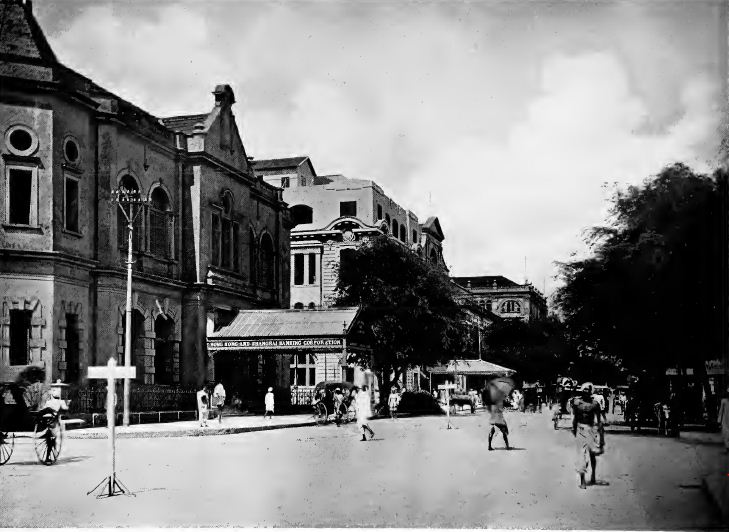 Merchant Road, Rangoon